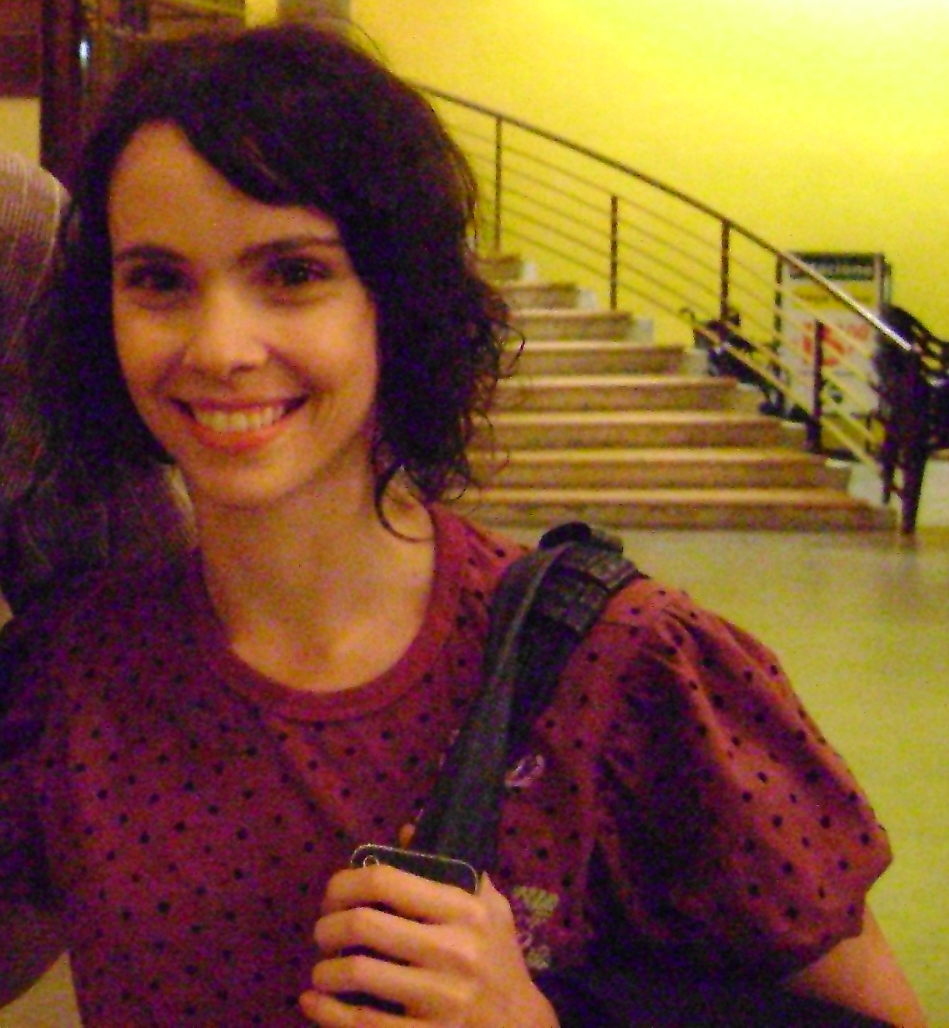 Débora Falabella, Brazilian actress, after the presentation of the play "O Amor e Outros Estranhos Rumores" in São Paulo.